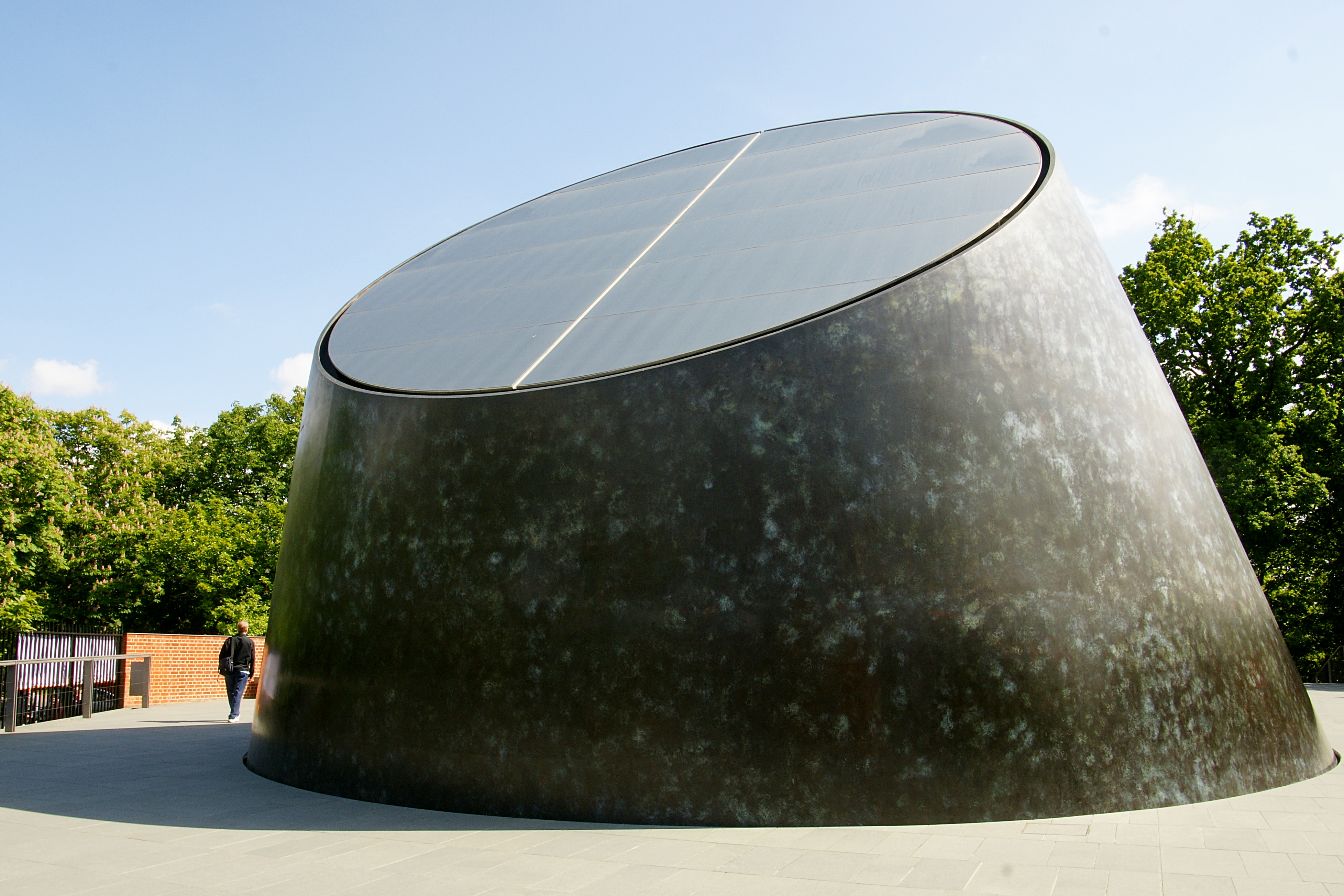 Peter Harrison Planetarium at the Royal Observatory, Greenwich, London, UK